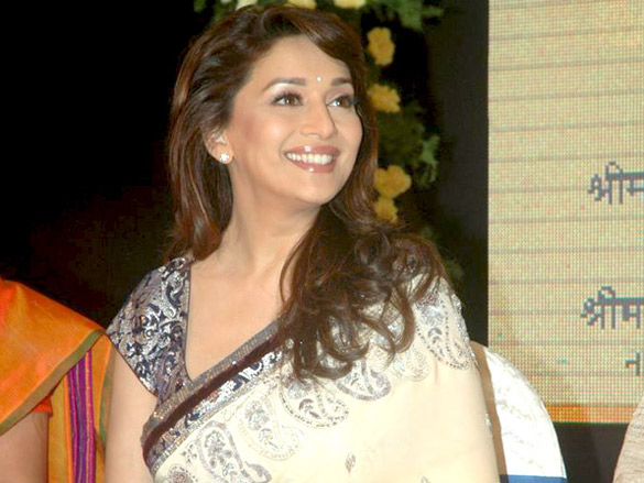 Madhuri Dixit at Valuable Group Virtual BMC School initiative launch